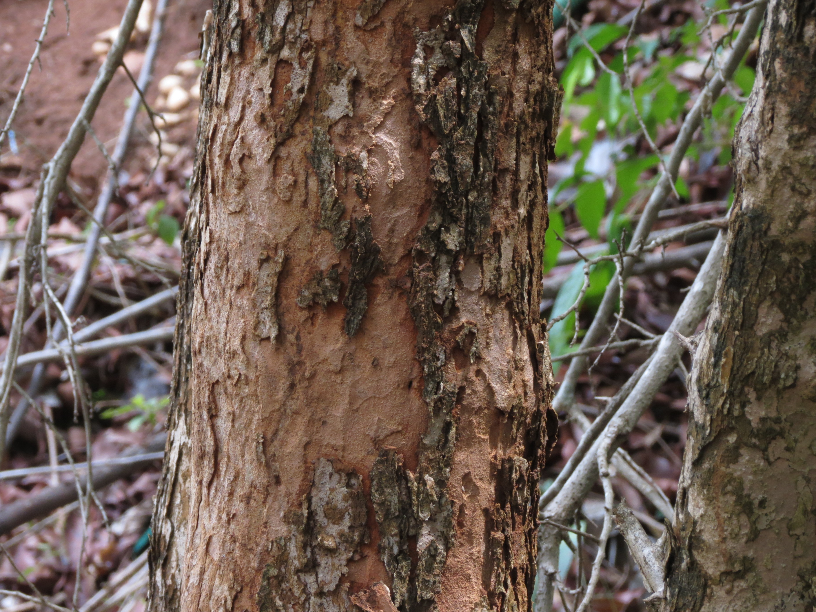 Sage Leaved Alangium (Alangium salviifolium) details